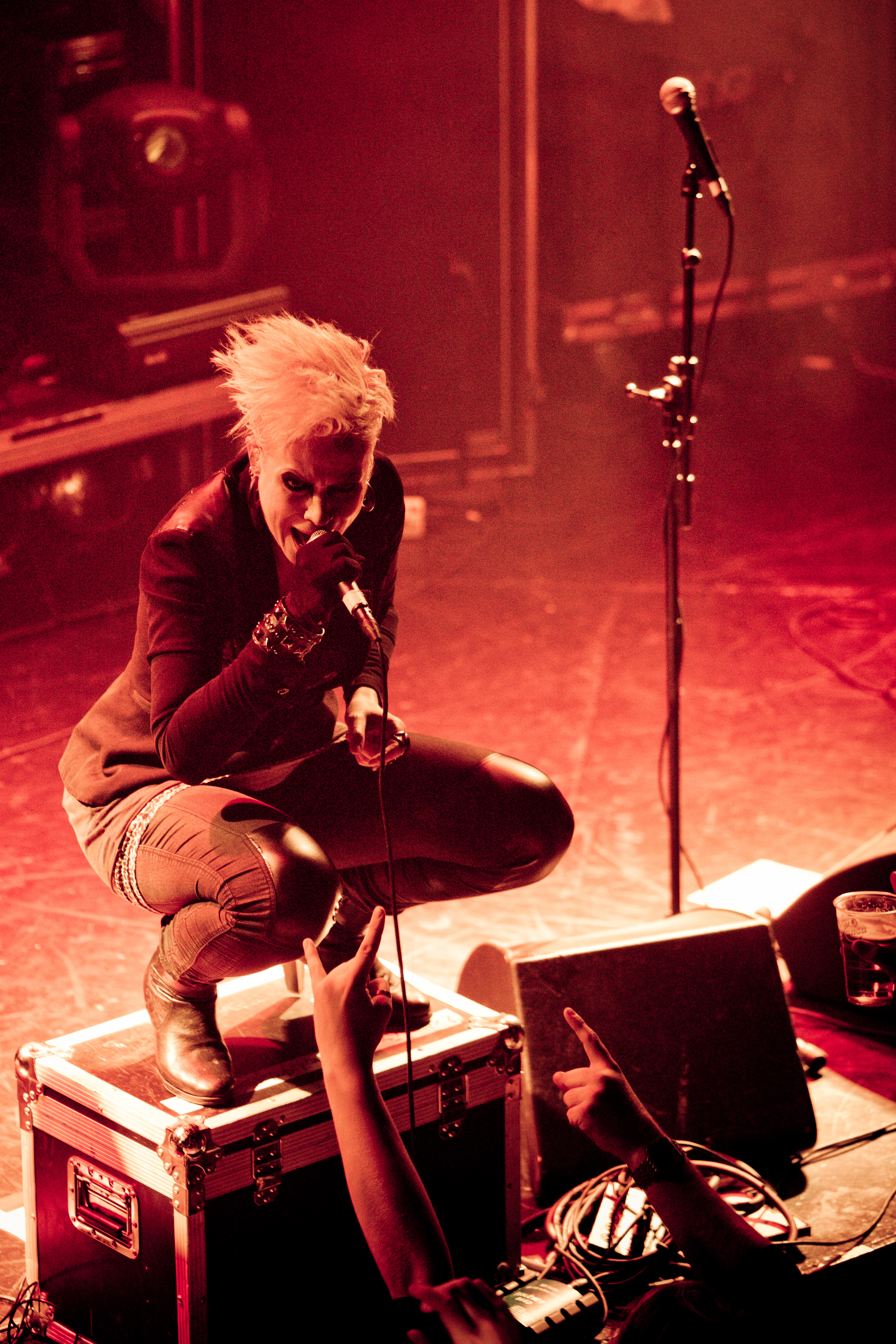 Agnete Kjølsrud, vocalist of norwegian band Djerv.